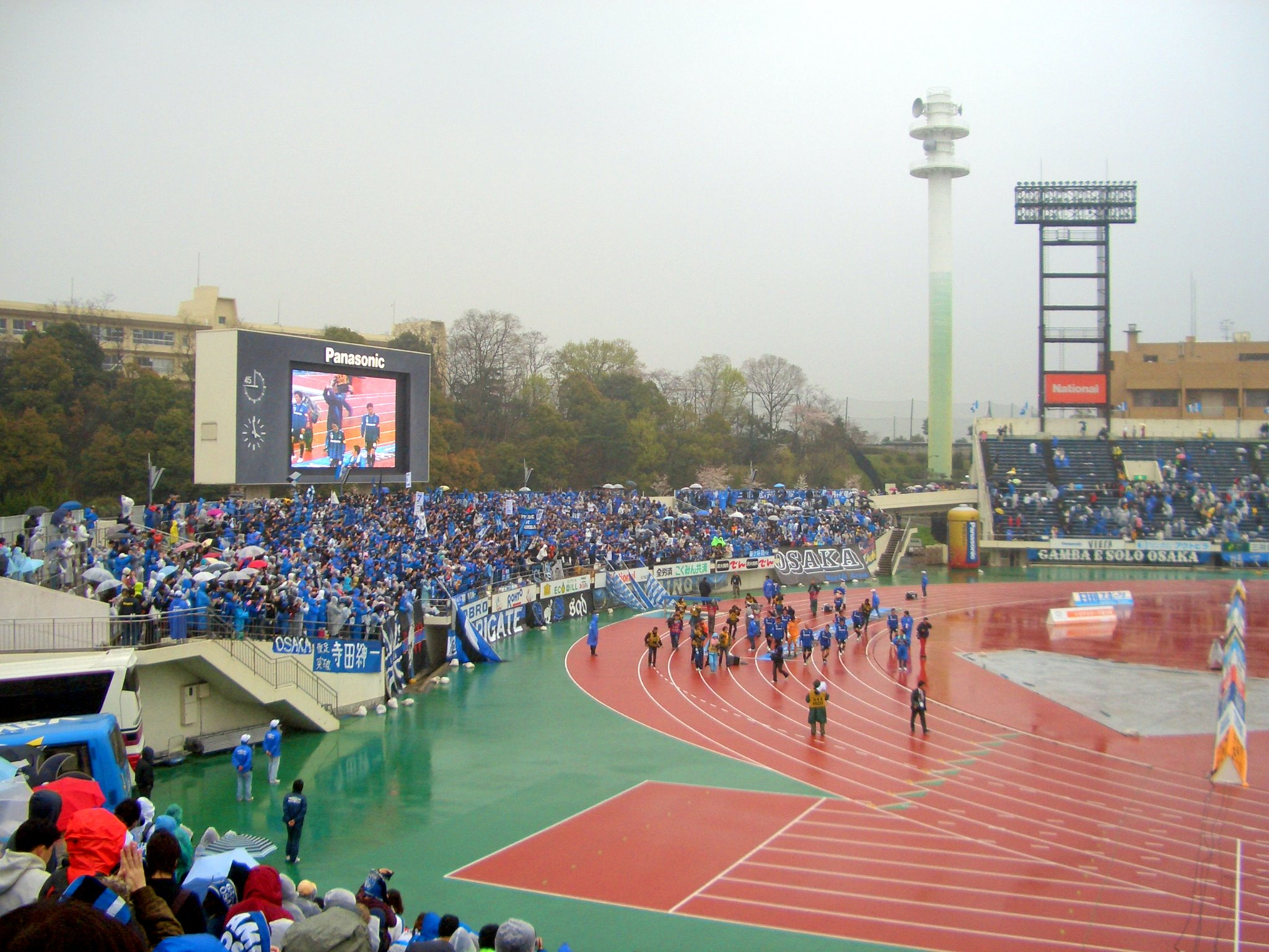 ASTRO VISION in Expo '70 Stadium and GAMBA Osaka's FAN